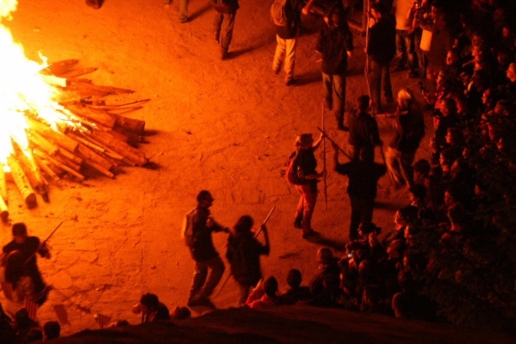 The dancing of Fallaires